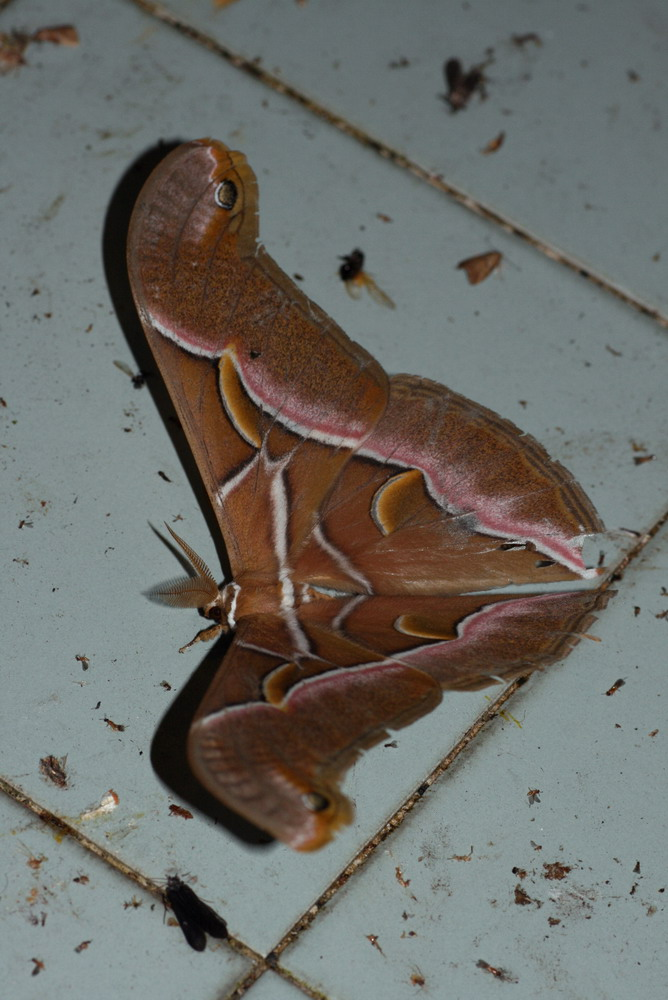 Malaysia, Fraser's Hill March 2009